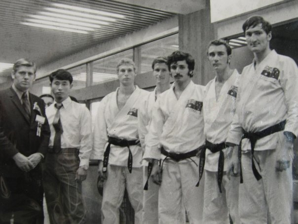 Australian Team Members Karate World Championships Tokyo Japan October 1970: Paul Starling, Ilias Zacharias, Danny Ellaby, John Halpin, Graham Kelleher, Coach Tamio Tsuji, Patron :Don Cameron